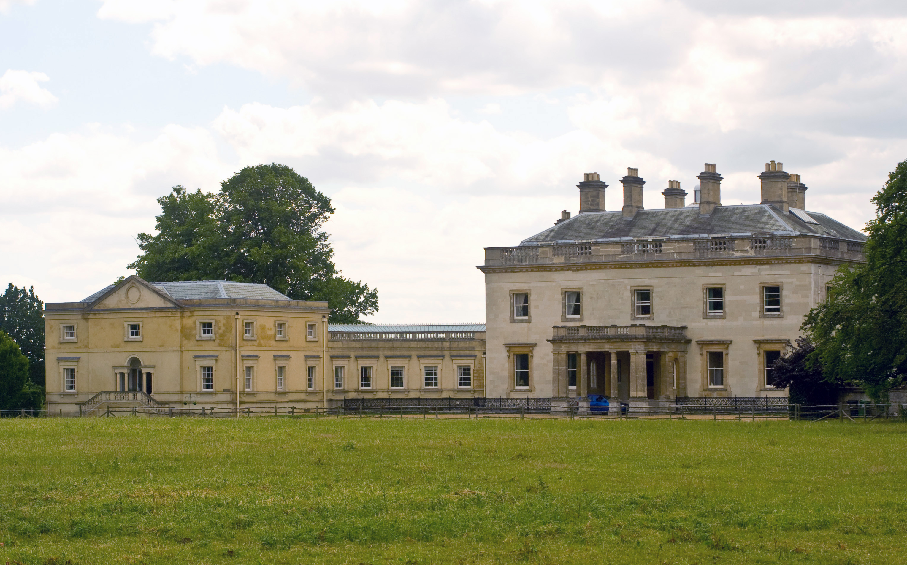 Gaddesden Place North Front.